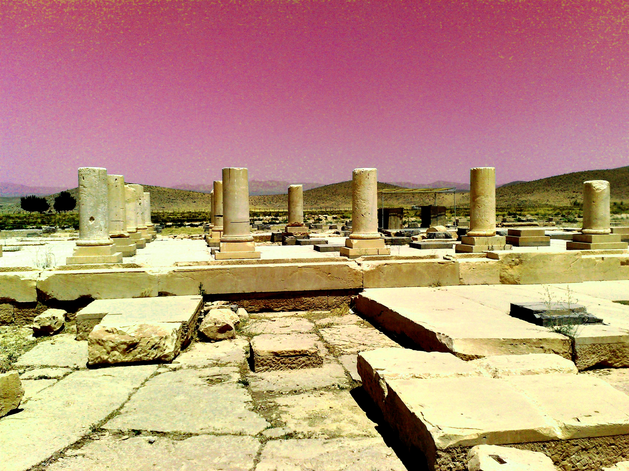 کاخ کورش